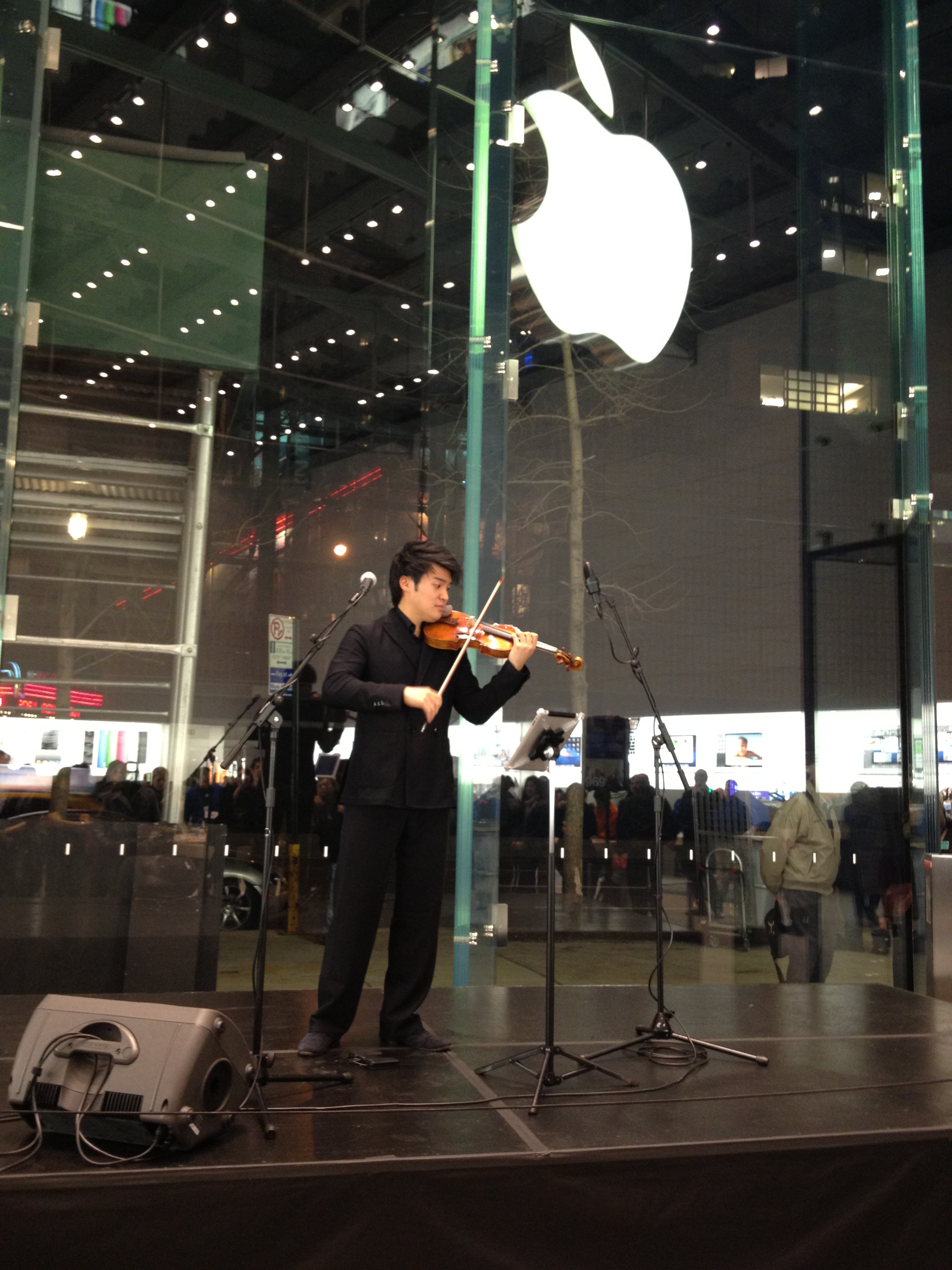 Violinist Ray Chen performing at the Apple Store in NYC on 2/6/12.